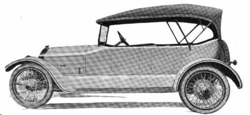 Roamer Six Touring (1916) This sporty upper-class automobile was an assembled vehicle.